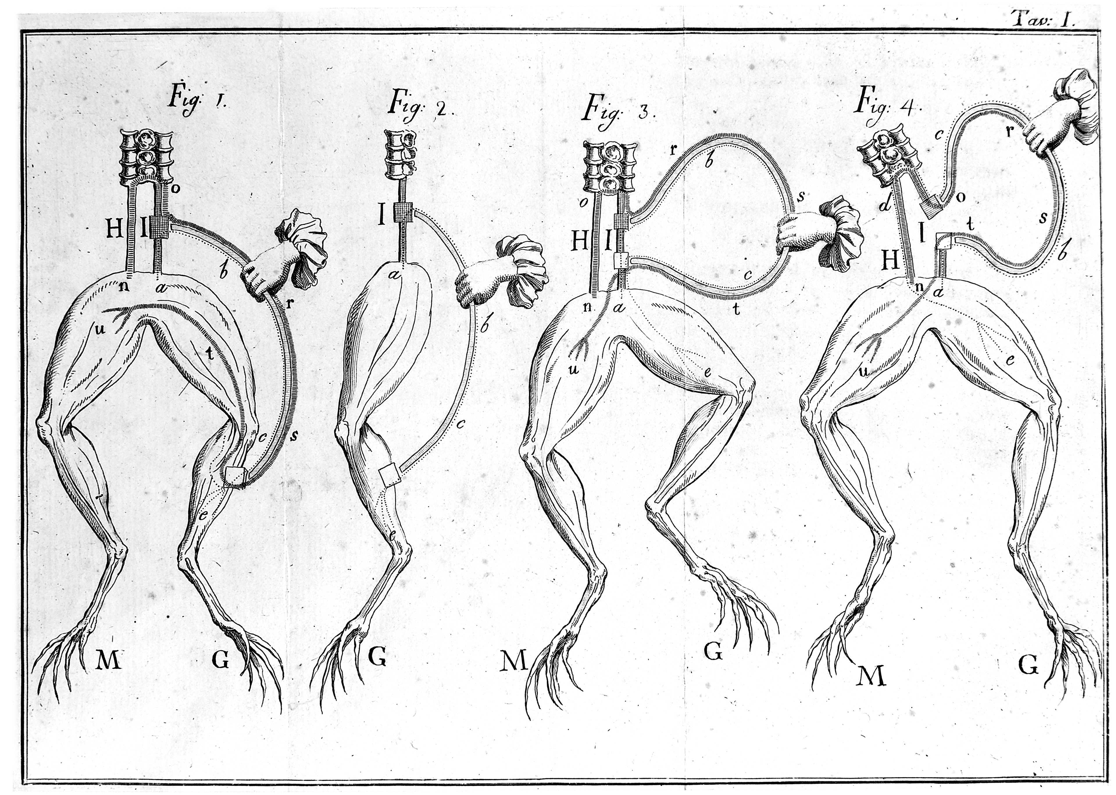 Galvani's experiments on the sciatic nerve of frogs; first detection of galvanic currents. Rare Books Keywords: Physics; Physiology; Luigi Galvani